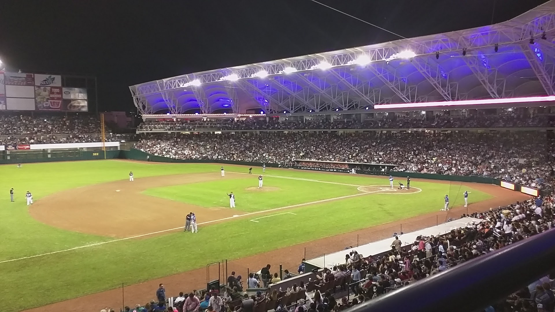 Estadio BBVA Bancomer, home of Tomateros de Culiacan baseball team in Culiacán Sinaloa